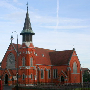 St. Patricks RC Church, Donabate